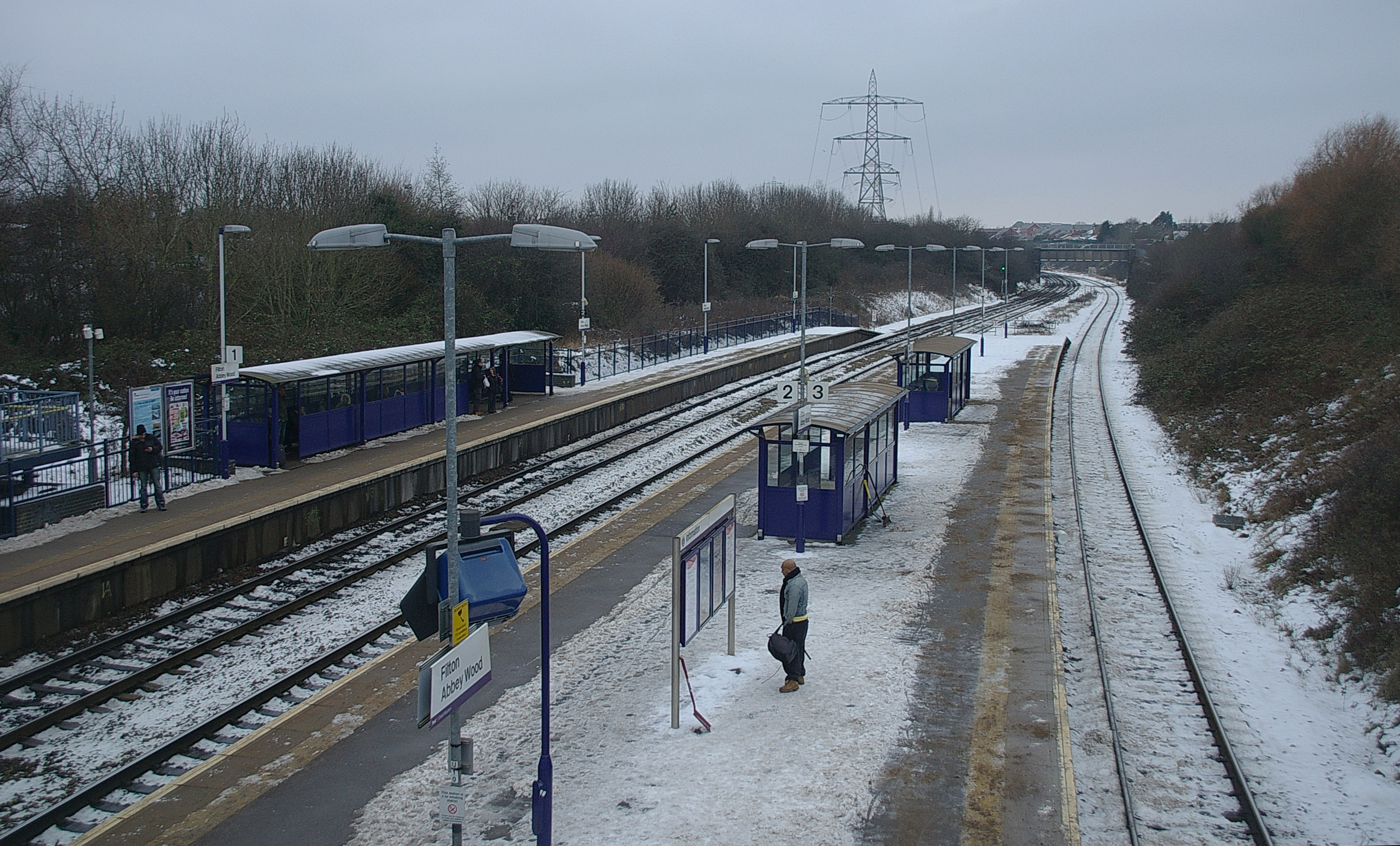 Filton Abbey Wood on a cold and snowy day.